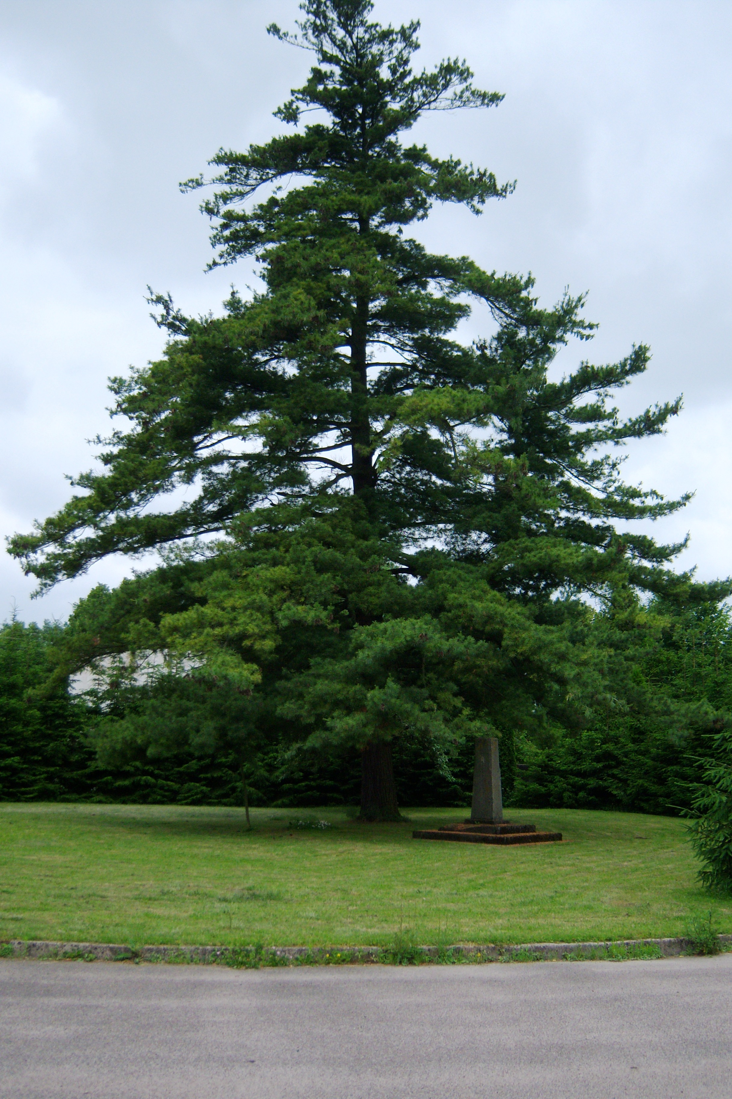 Former Vytėnai manor, courtyard, Kaunas district. Lithuania